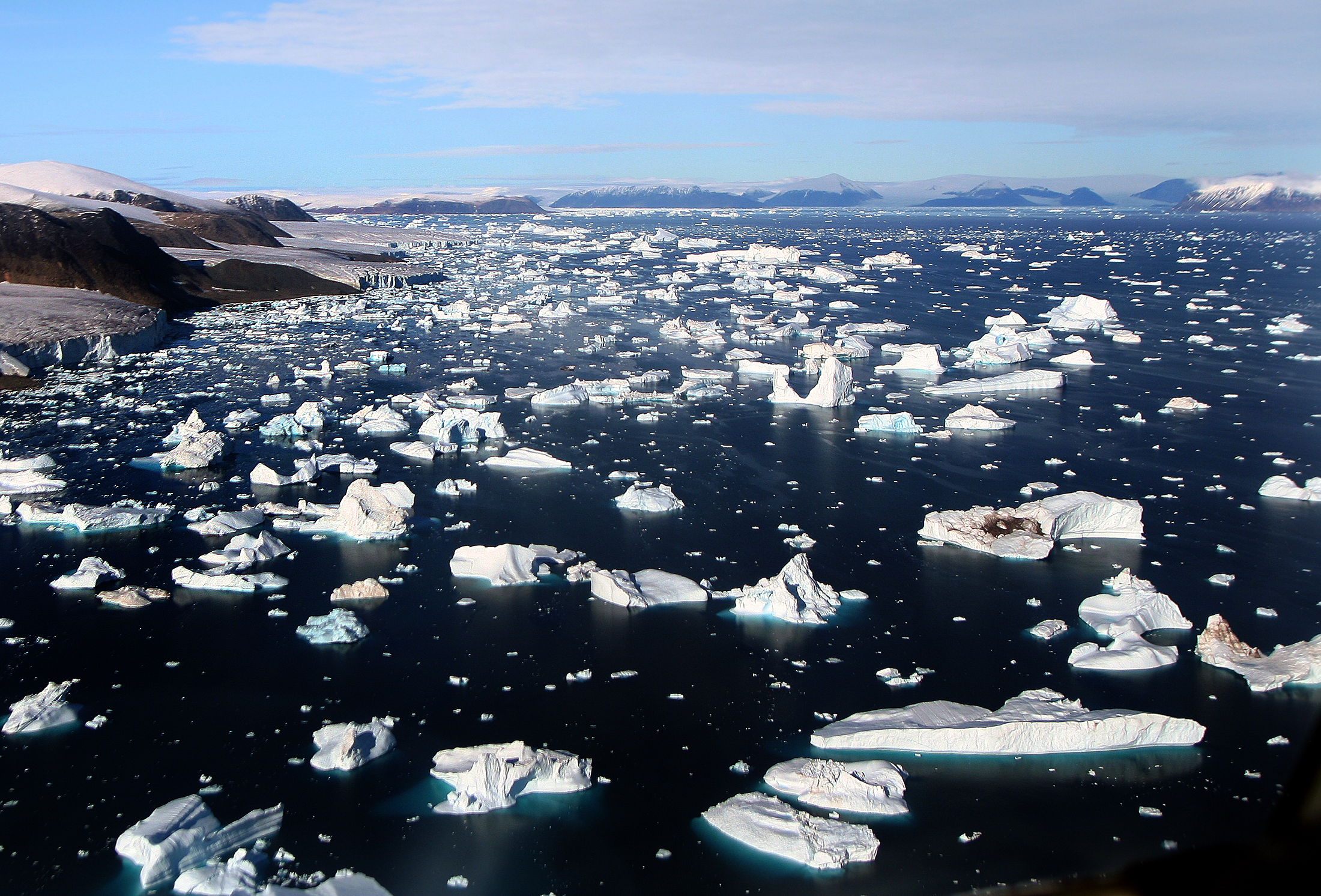 Icebergs are breaking off glaciers at Cape York, Greenland. The picture was taken from a helicopter.